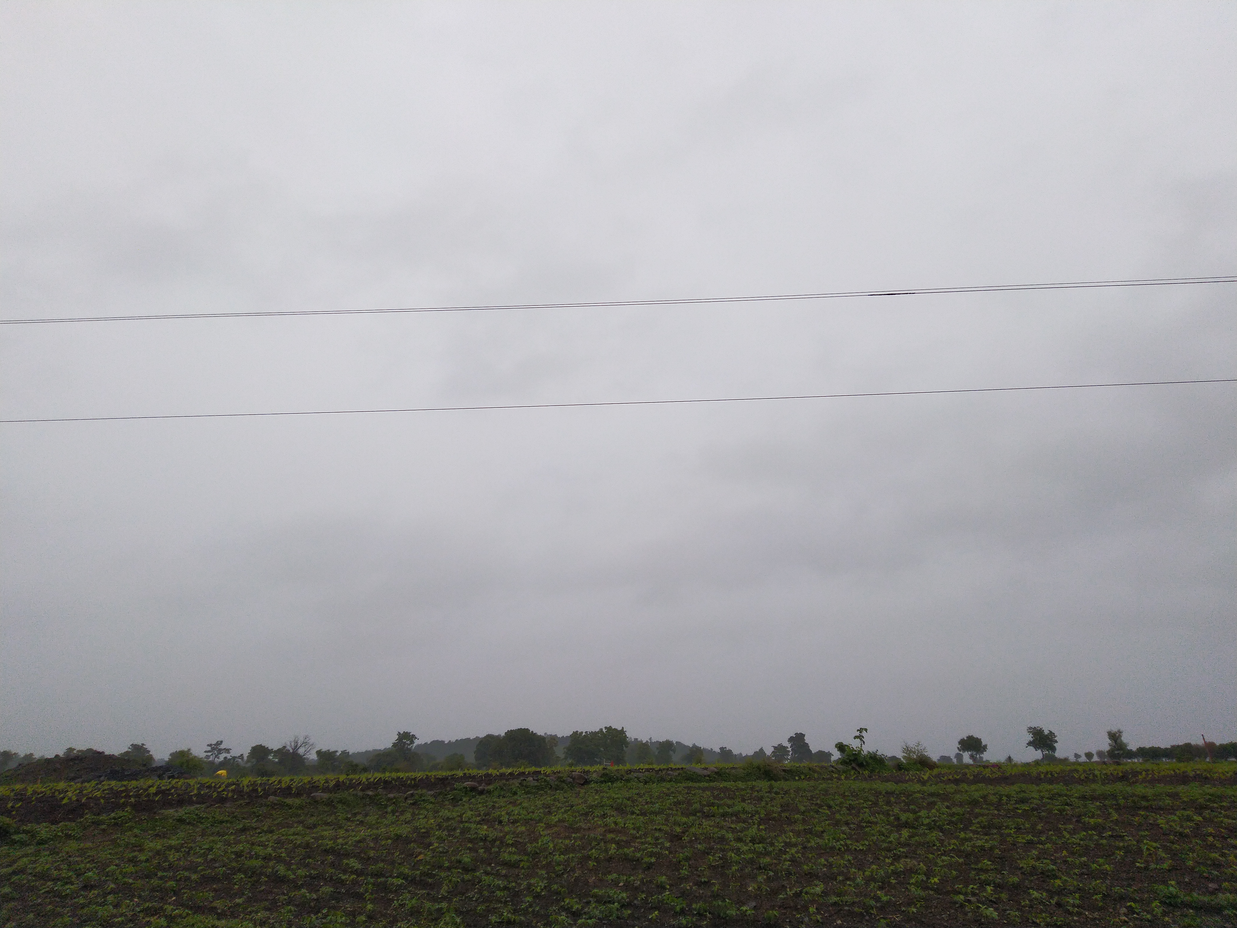 This image is taken on 26th July, 2019 on Deccan Plateau, India.